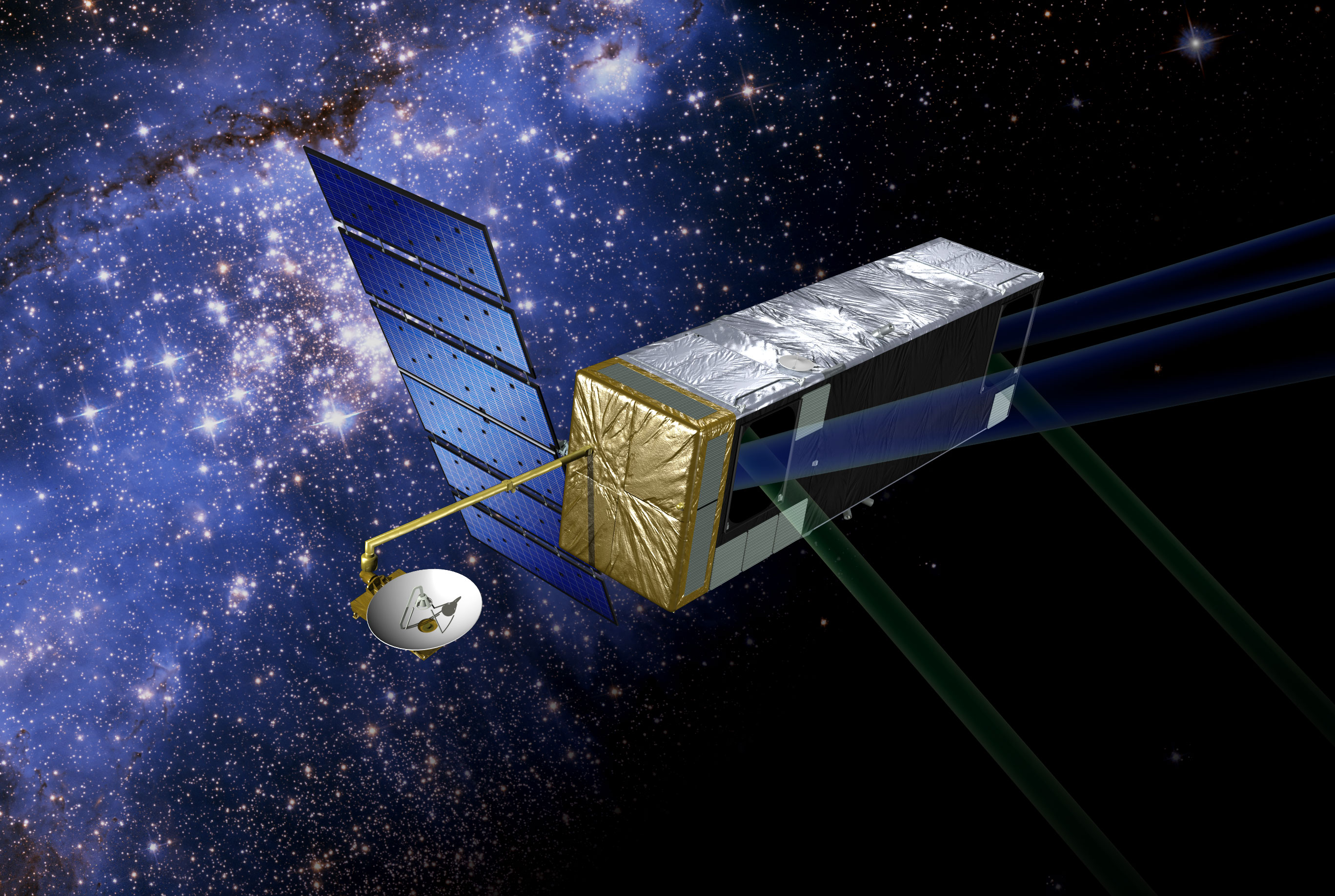 Artist's Conception of Space Interferometry Mission